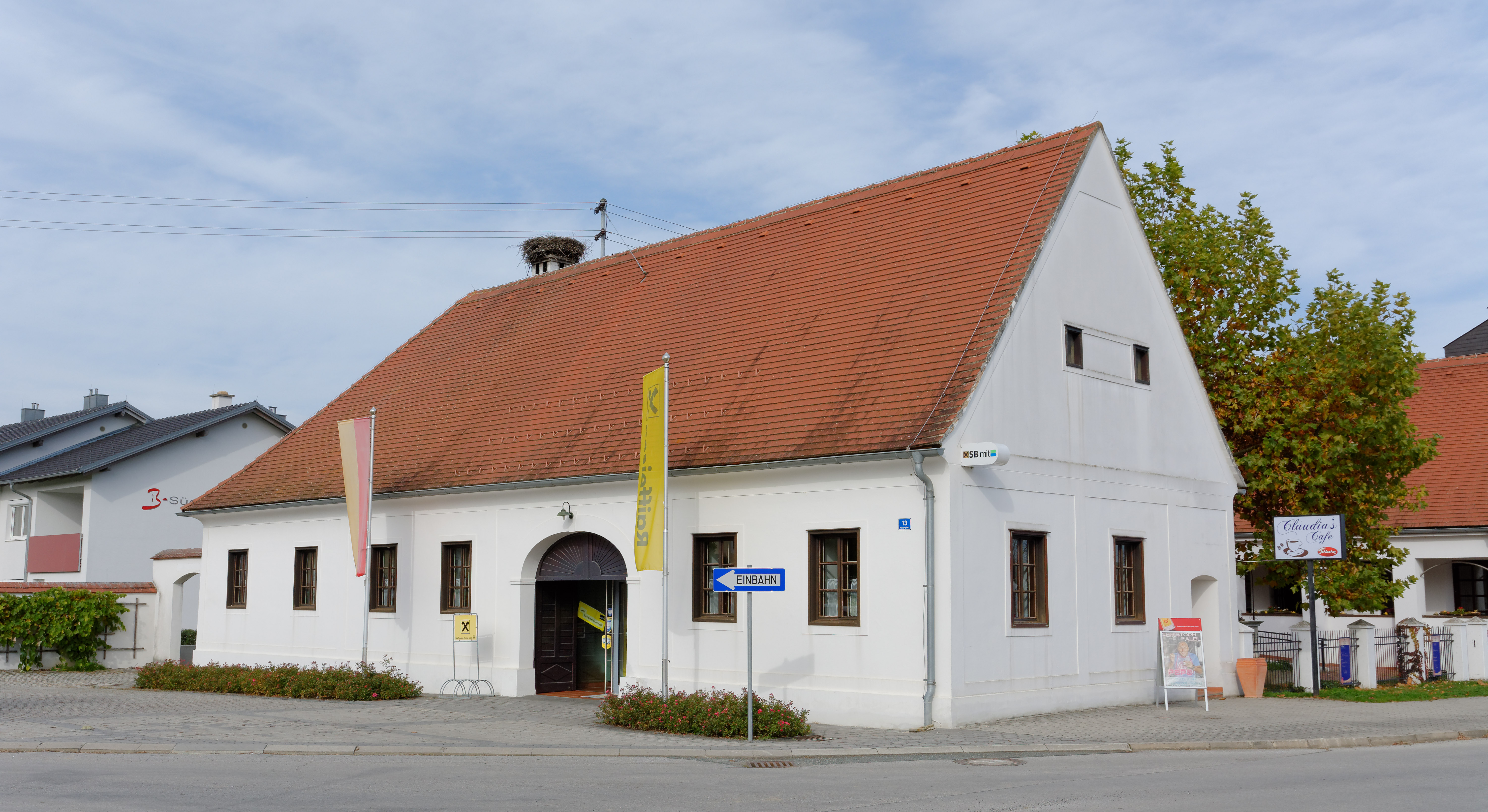 Former municipal office in Mischendorf, Burgenland, Austria